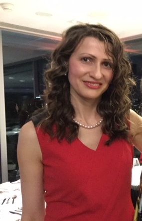 Dr Lorina Naci and Elaine Ayotte, Ambassador of Canada to UNESCO